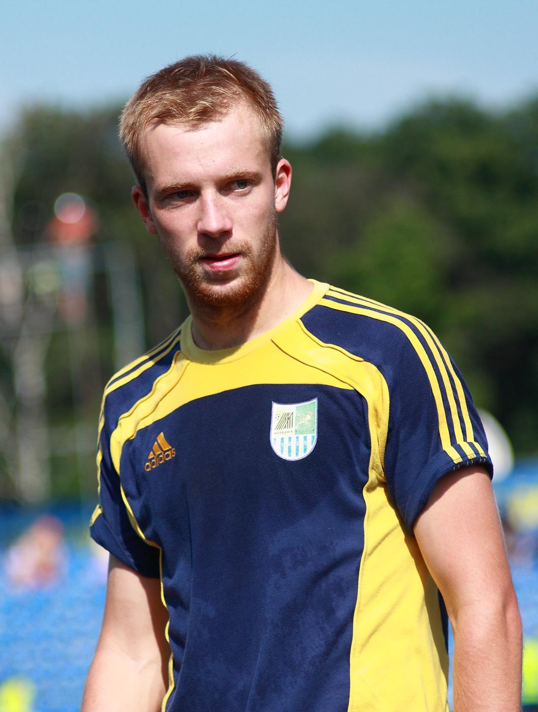 Dmitro Eremenko